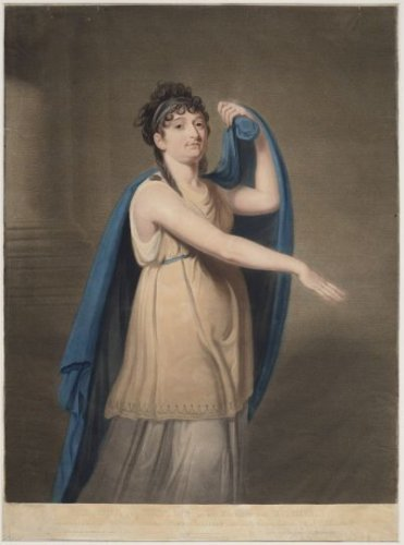 Johanna Cornelia Ziesenis-Wattier in the role of Epicharis for the Amsterdam Theatre, 1805